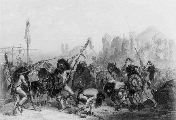 Mandan Bison Dance, print and as observed by Karl Bodmer (1809-1893), Library of Congress. "Bison dance of the Mandan Indians in front of their medicine lodge. In Mihtutta-Hankush".